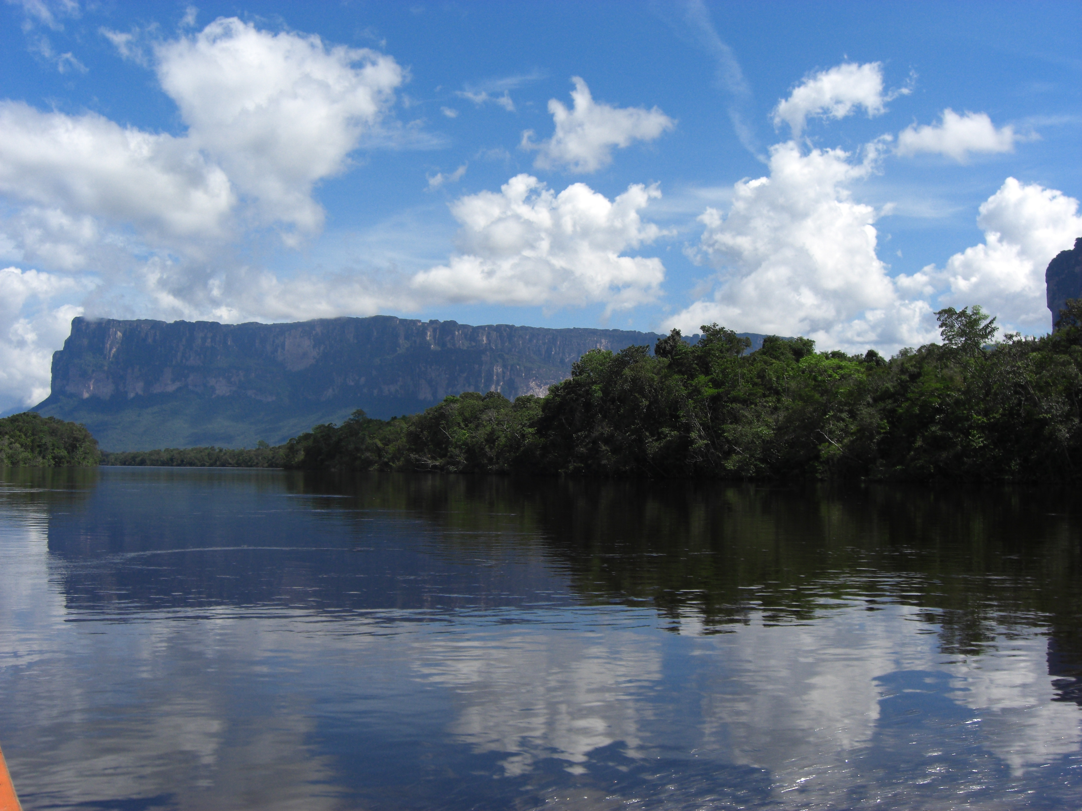 Landscape with Tepuis, Canaima National Park, Venezuela